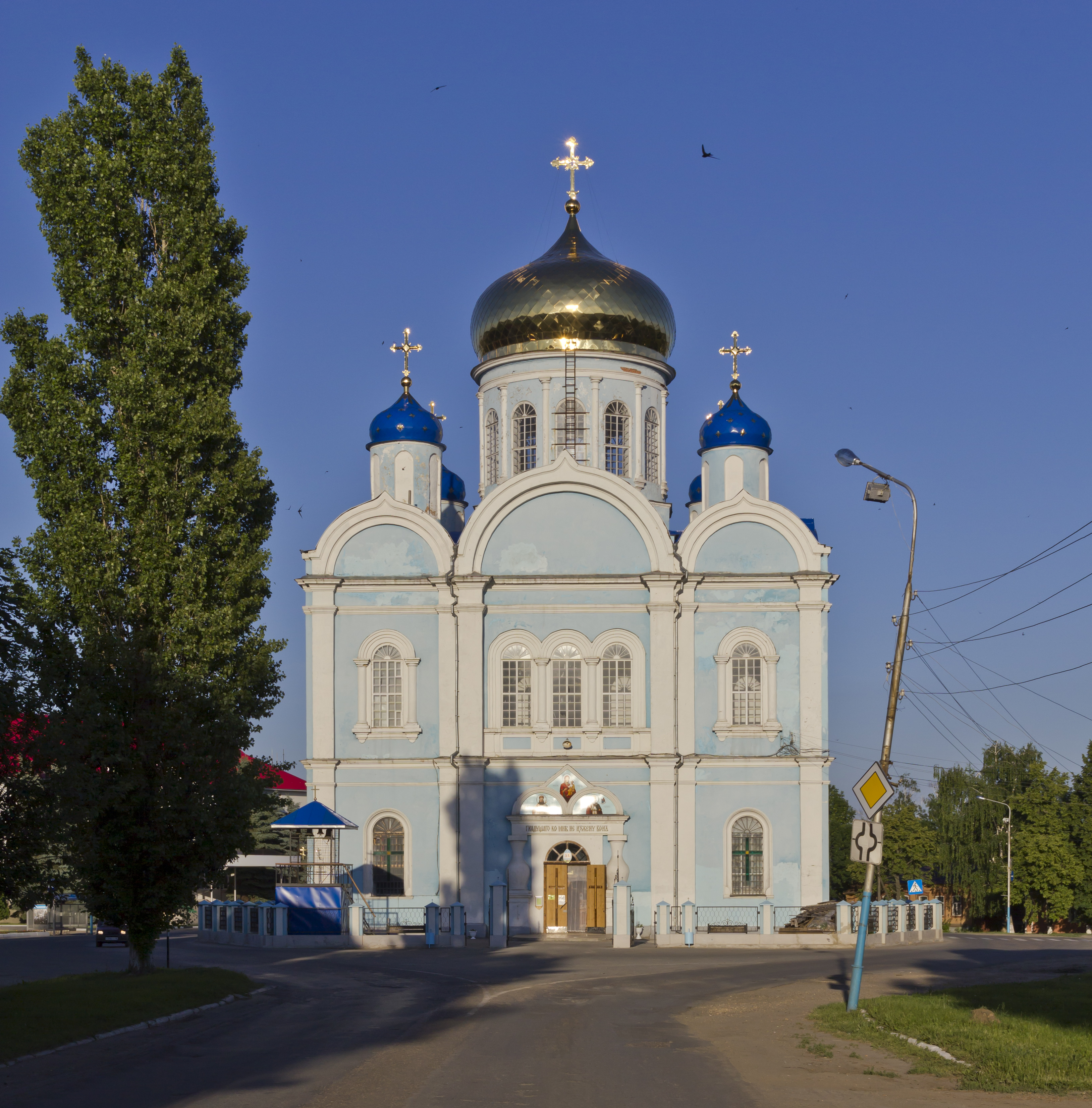 Cathedral of Our Lady of Tikhvin in Dankov, Dankovsky District, Lipetsk Oblast, Russia